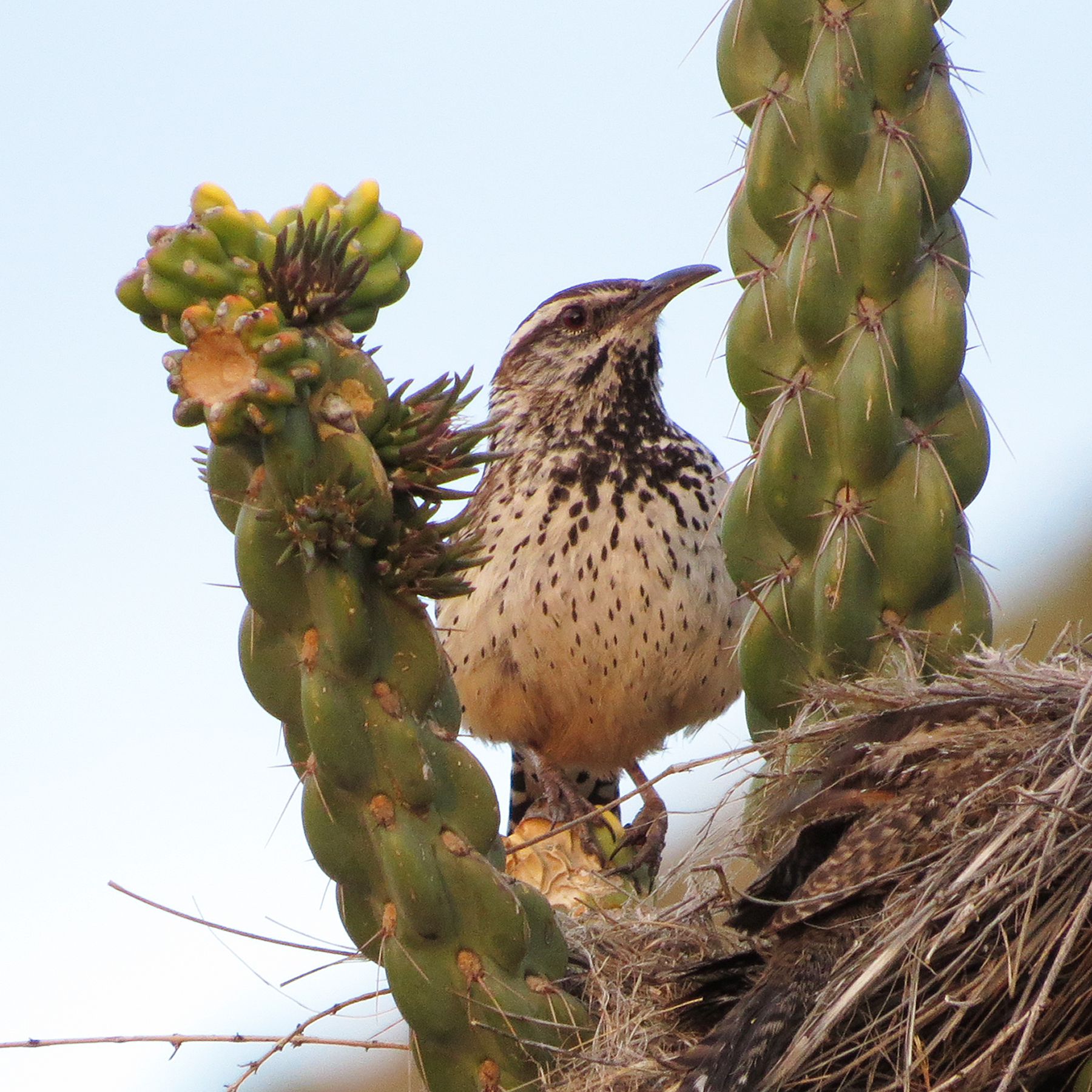 Campylorhynchus brunneicapillus guttatus 20 apr 14 Big Bend NP, Texas